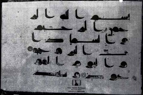 A manuscript of the Mushaf of Ali, a Qur'an that believed to be written by Ali ibn Abi Talib. This page is the first verses of surah al-Buruj, 85:1–3.